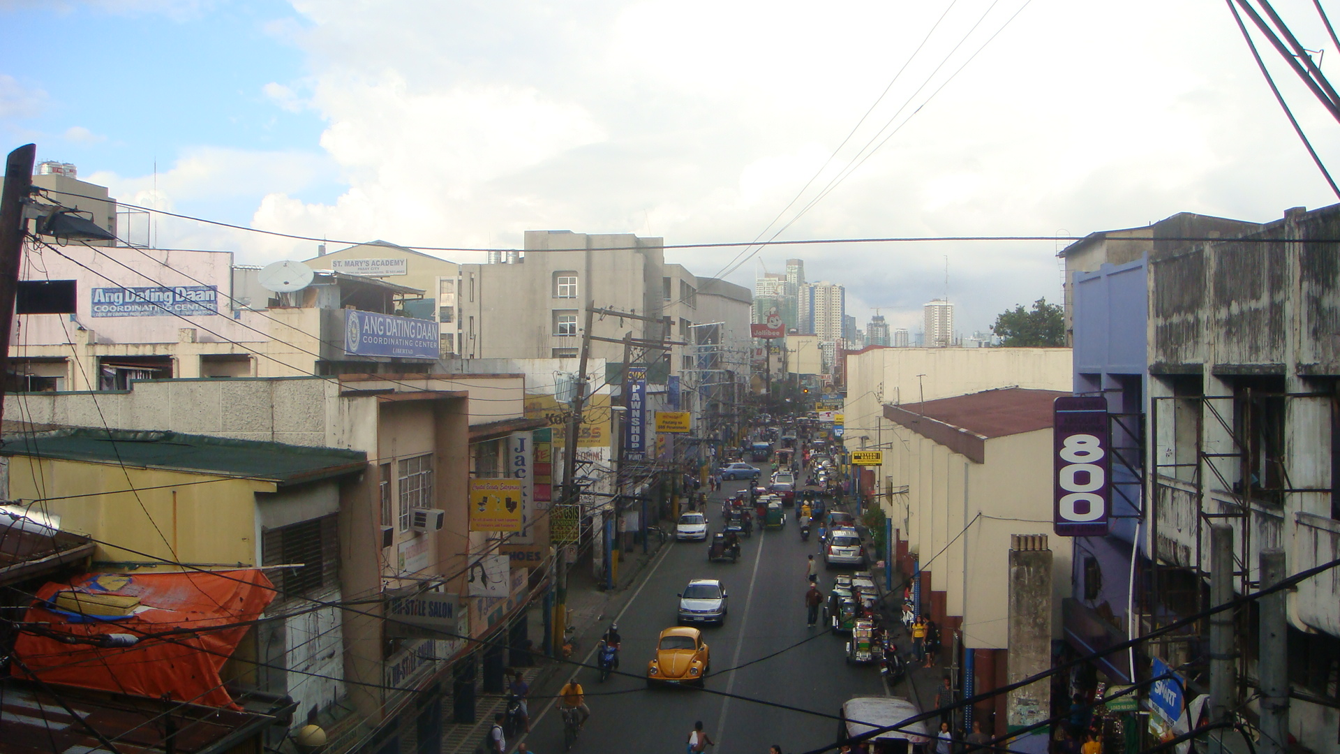 View of Pasay City from Libertad LRT station Arnaiz Avenue Libertad Road and Pasay Road (formerly called Libertad, Libertad Road and Pasay Road on the Pasay segment) aviation pioneer, Antonio Somoza Arnaiz along Legislative district of Pasay Pasay City List of barangays of Metro Manila Barangays 50, 59, Zone 7, 66, 67, Zone 8, 92, Zone 9, District I, 94, 95, 105, 106, 107, 108, Zone 11, 120, Zone 12, 128, Zone 13, Districts I and II, Pasay City Libertad LRT Station at Taft_Avenue.